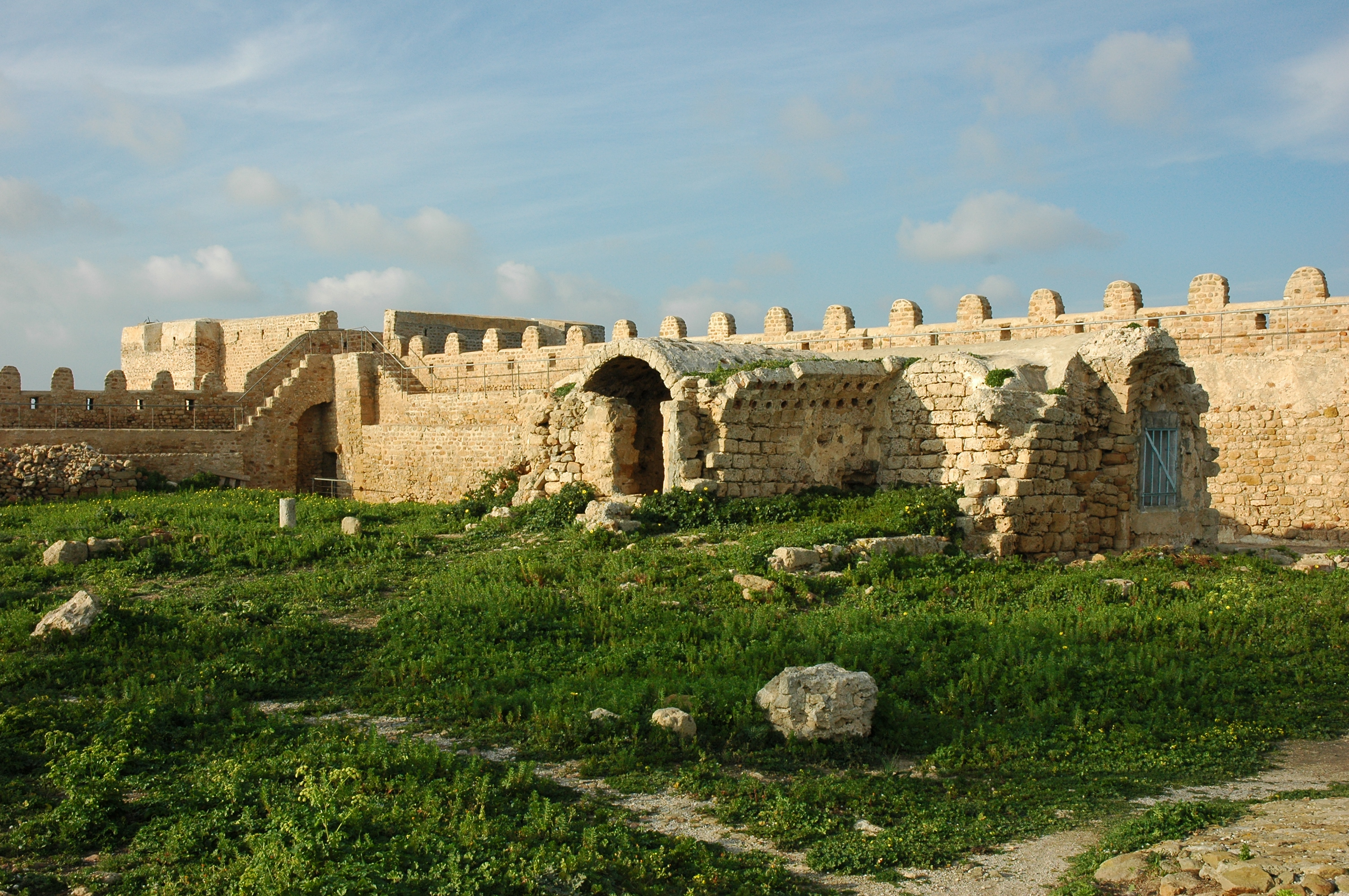 Tunisia, Kelibia